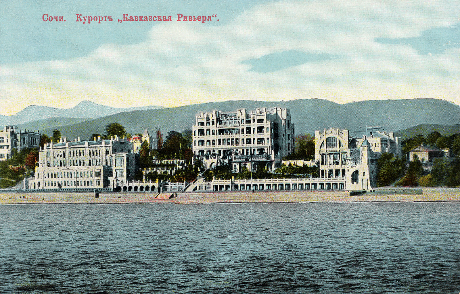 Sochi, Russia in the early 1900s.